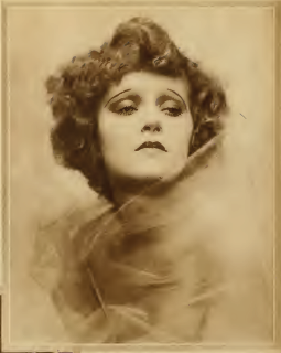 Juanita Hansen Motion Picture Classic 1920